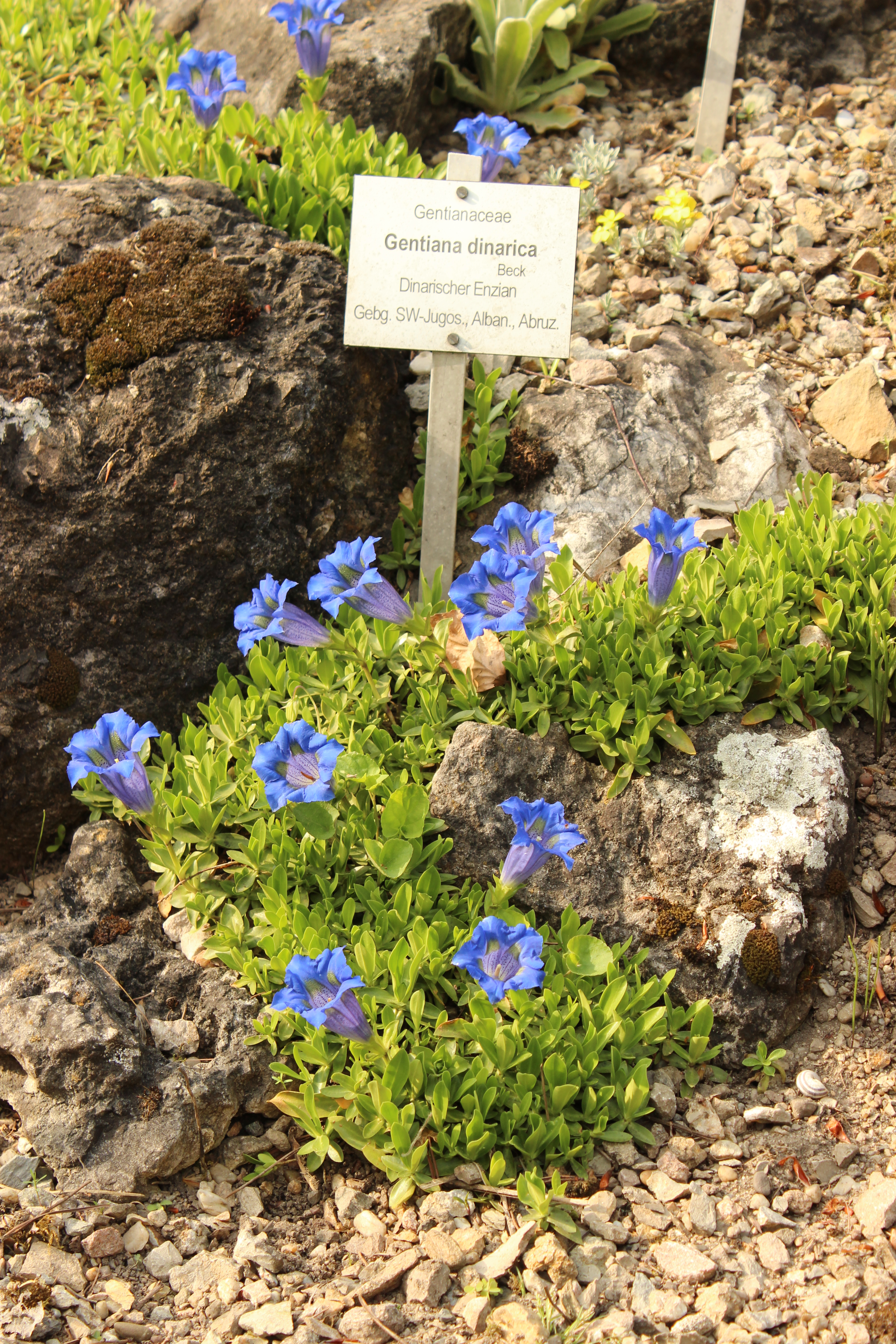 Gentiana dinarica in the Botanical Garden of the University of Vienna.